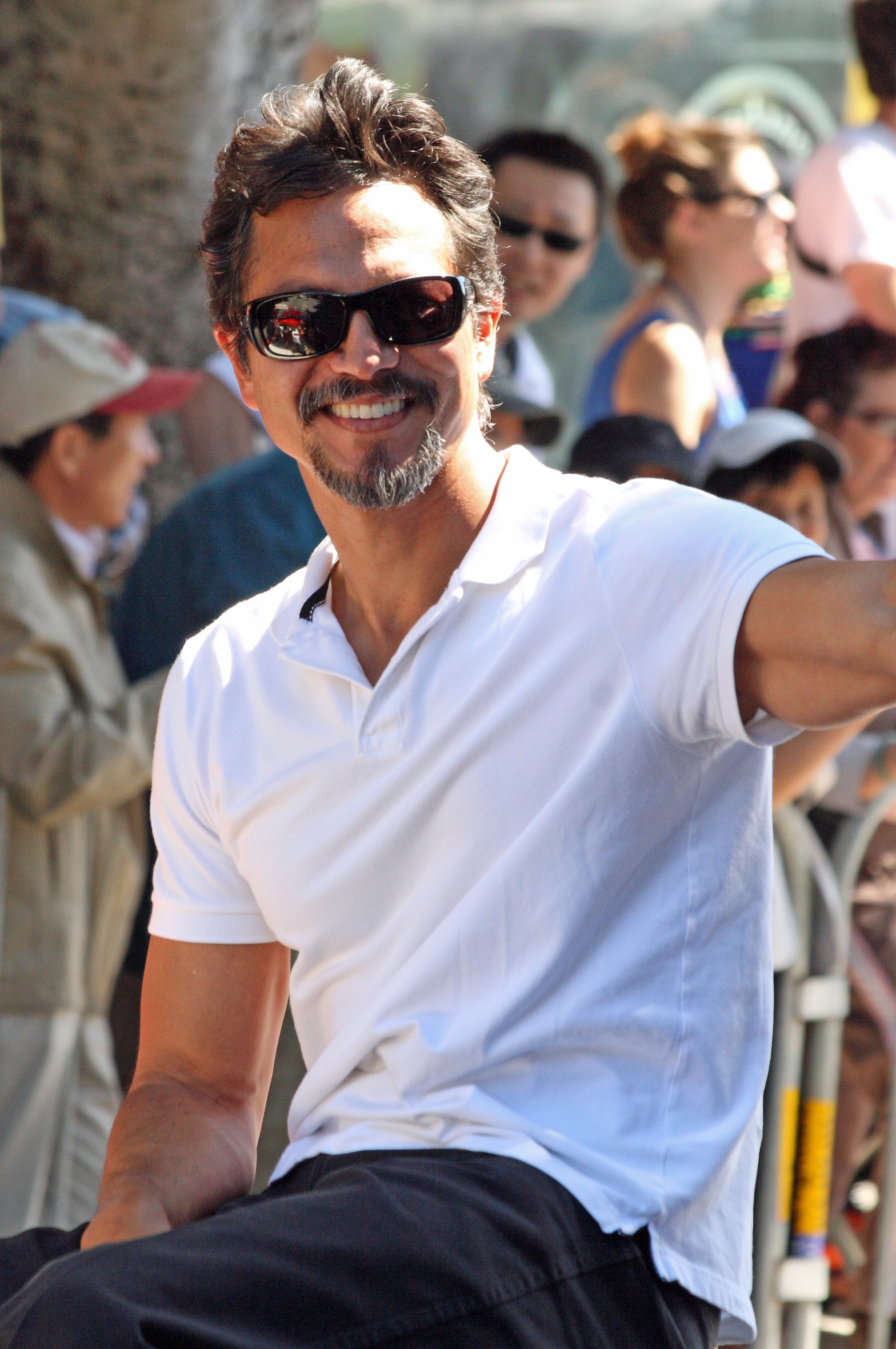 We had a chance to check out the Carnaval in San Francisco's Mission District over Memorial Day weekend in May 2010. The Carnaval is quite an experience - over three hours of people in some very cool costumes from multiple countries and cultures. Photographically it was very tough to shoot since it was sunny and the parade route passed under trees creating a lot of harsh shadows - oh, to have an overcast day! However this gives me another reason to go back there again - bummer!